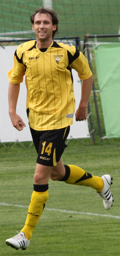 Nerijus Vasiliauskas playing for Vetra Vilnius